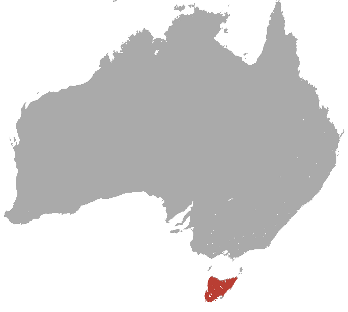 Eastern Quoll (Dasyurus viverrinus) range